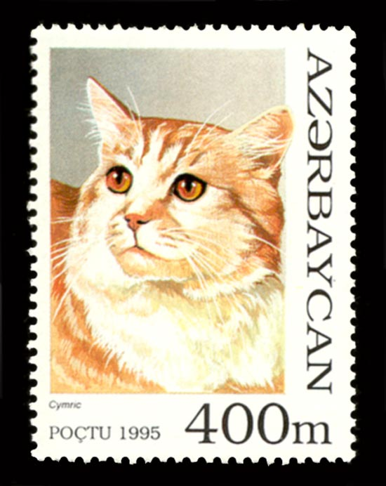 Stamp of Azerbaijan. Cymric (Manx longhair)